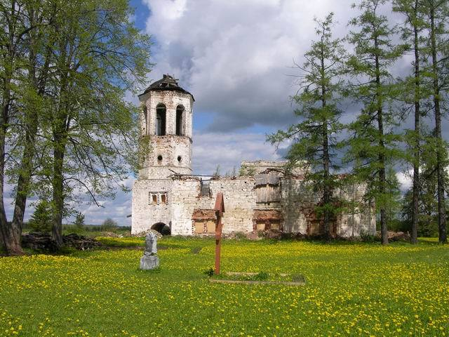 Kargopol (Russia), Alexandro-Oshevensky Monastery, Uspensky Cathedral.